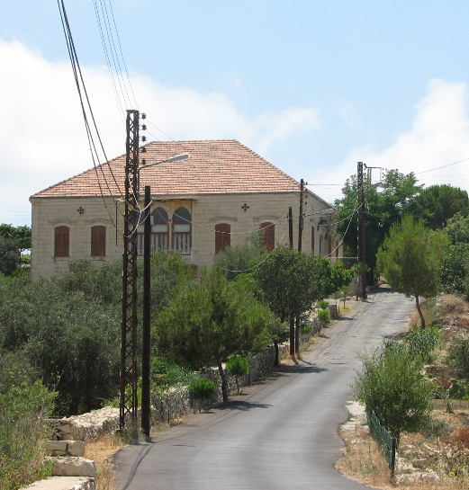 The entrance of the Hbaline village with the Nader house in the back.